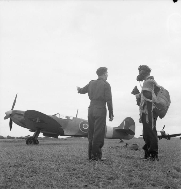 Royal Air Force Fighter Command, 1939-1945. A newly-qualified pilot is introduced to the Supermarine Spitfire, a Mark IIB, P8315, by his instructor at No. 61 Operational Training Unit, Rednal, Staffordshire. Comment : RAF Rednal was in Shropshire, not Staffordshire.